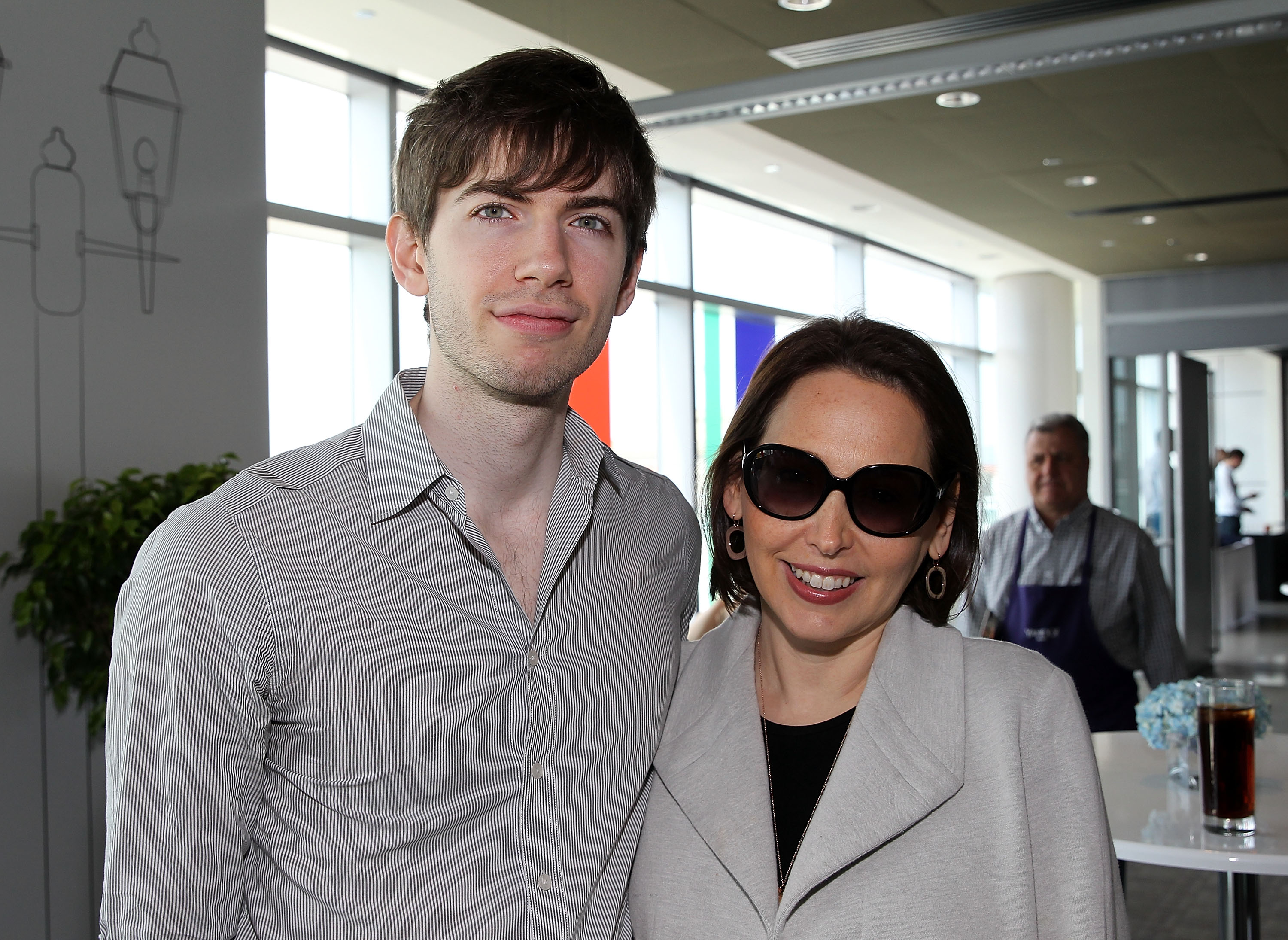 WASHINGTON, DC - MAY 04: David Karp, CEO, Tumblr, and Kathy Savitt, CMO, Yahoo, attend the Yahoo News/Tumblr White House Correspondents Dinner Brunch at The Newseum on May 4, 2014 in Washington, DC. (Photo by Paul Morigi/Getty Images for Yahoo News)